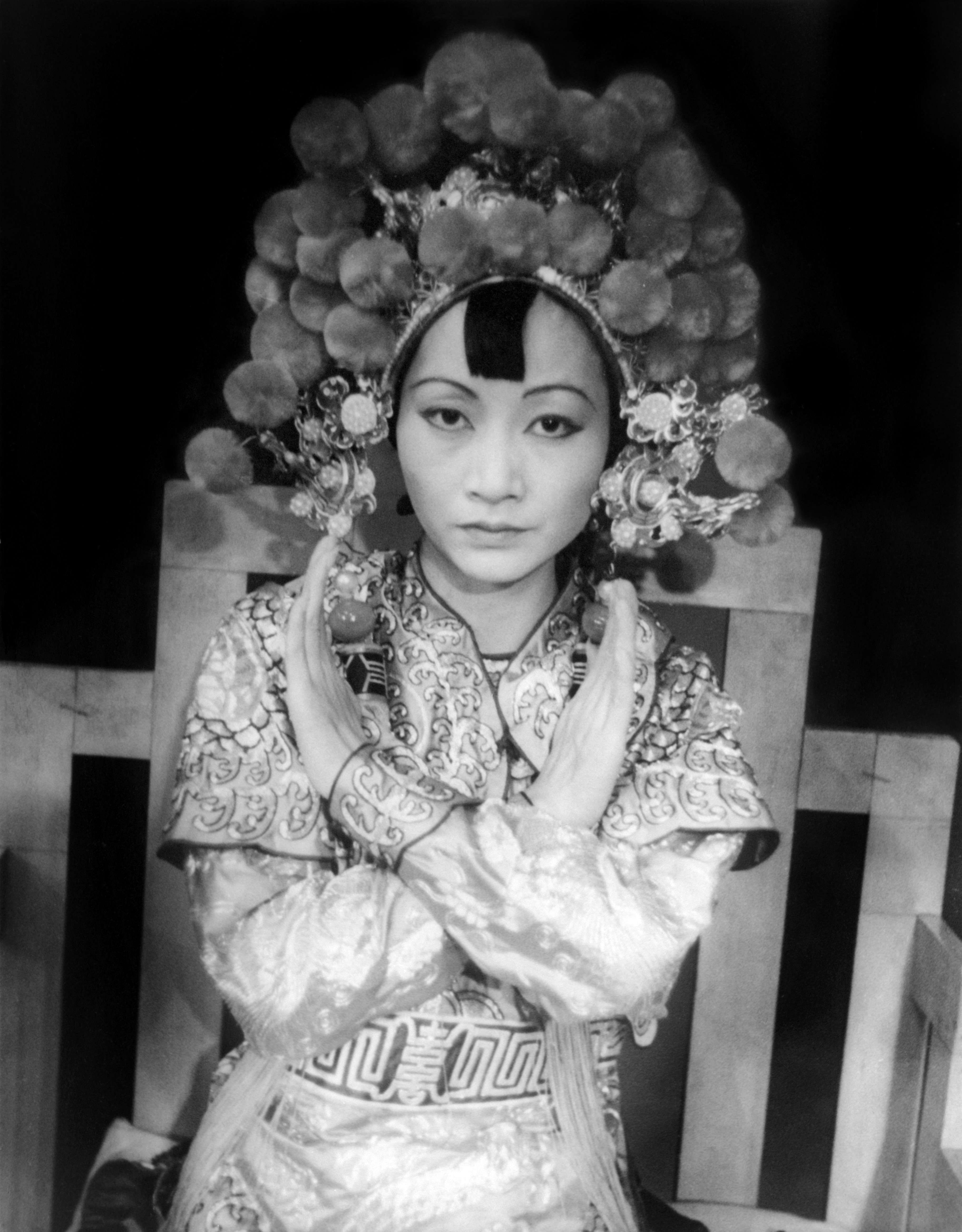 Portrait of Anna May Wong as Turandot at Westport.